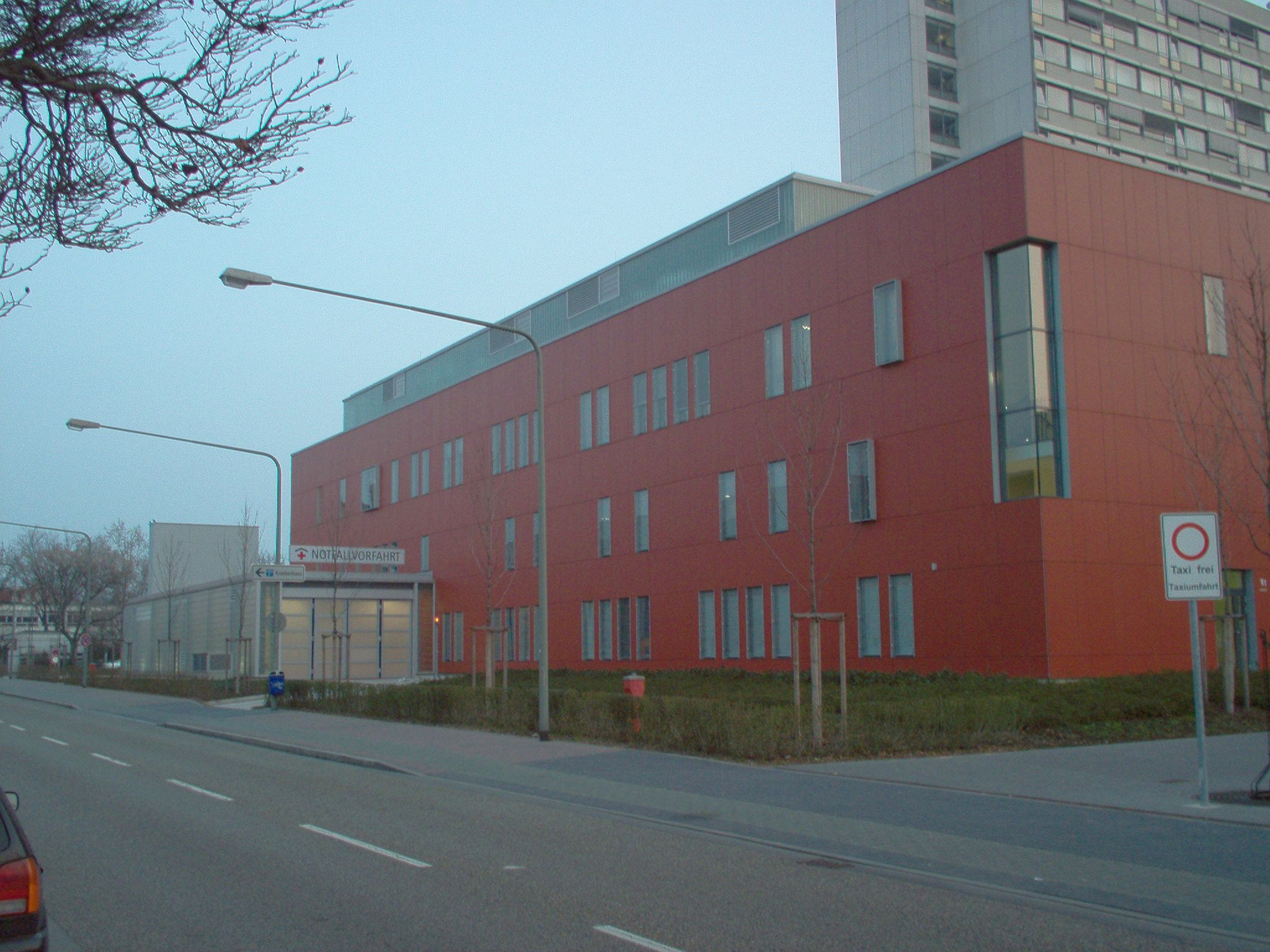 Klinikum Höchst, The red building, from 2005, contains emergenycy department, operation rooms and Intensive care unit